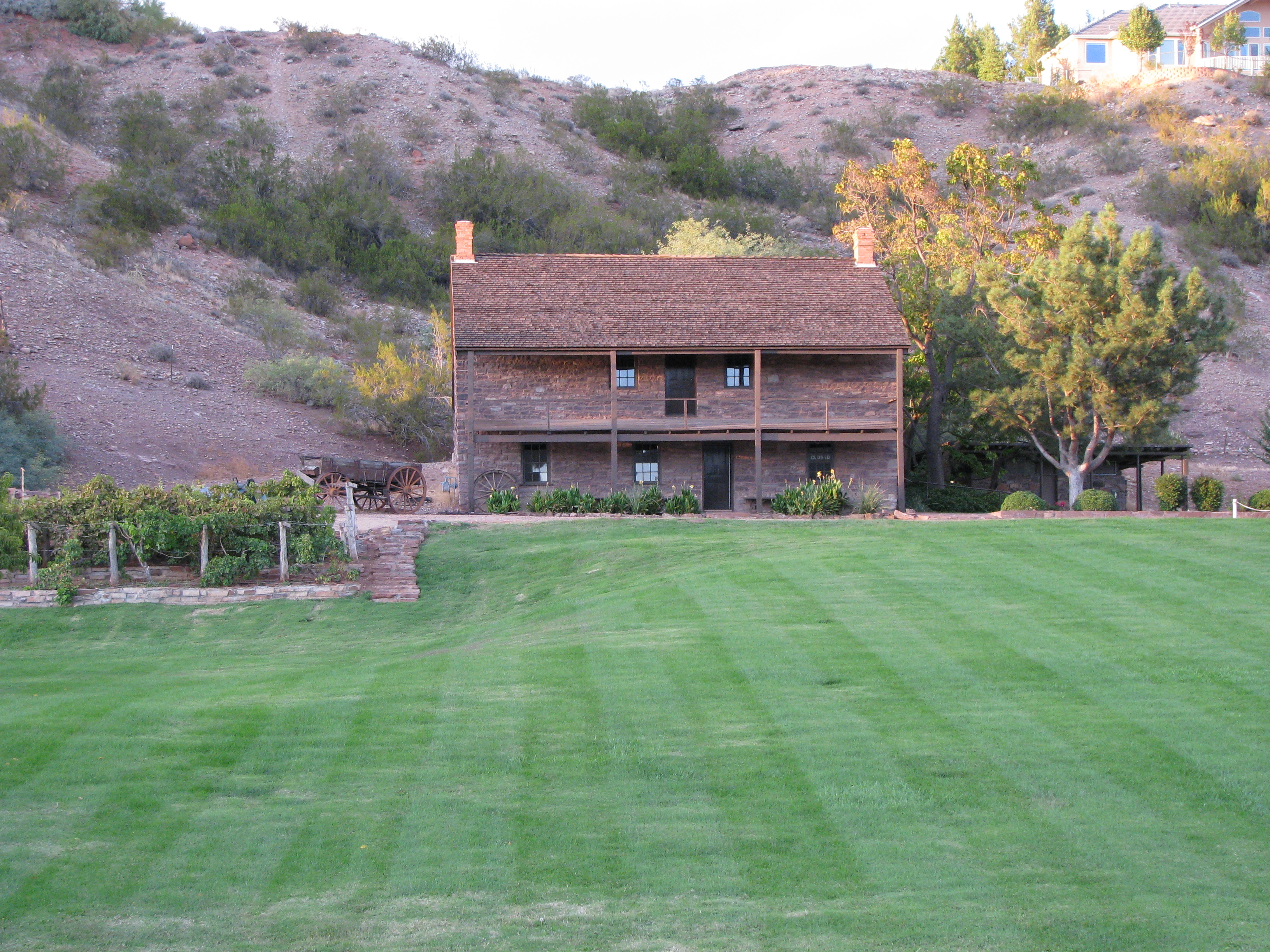 Jacob Hamblin home in Santa Clara, Utah. Hamblin is a figure in Mormon (Latter-day Saint) history.